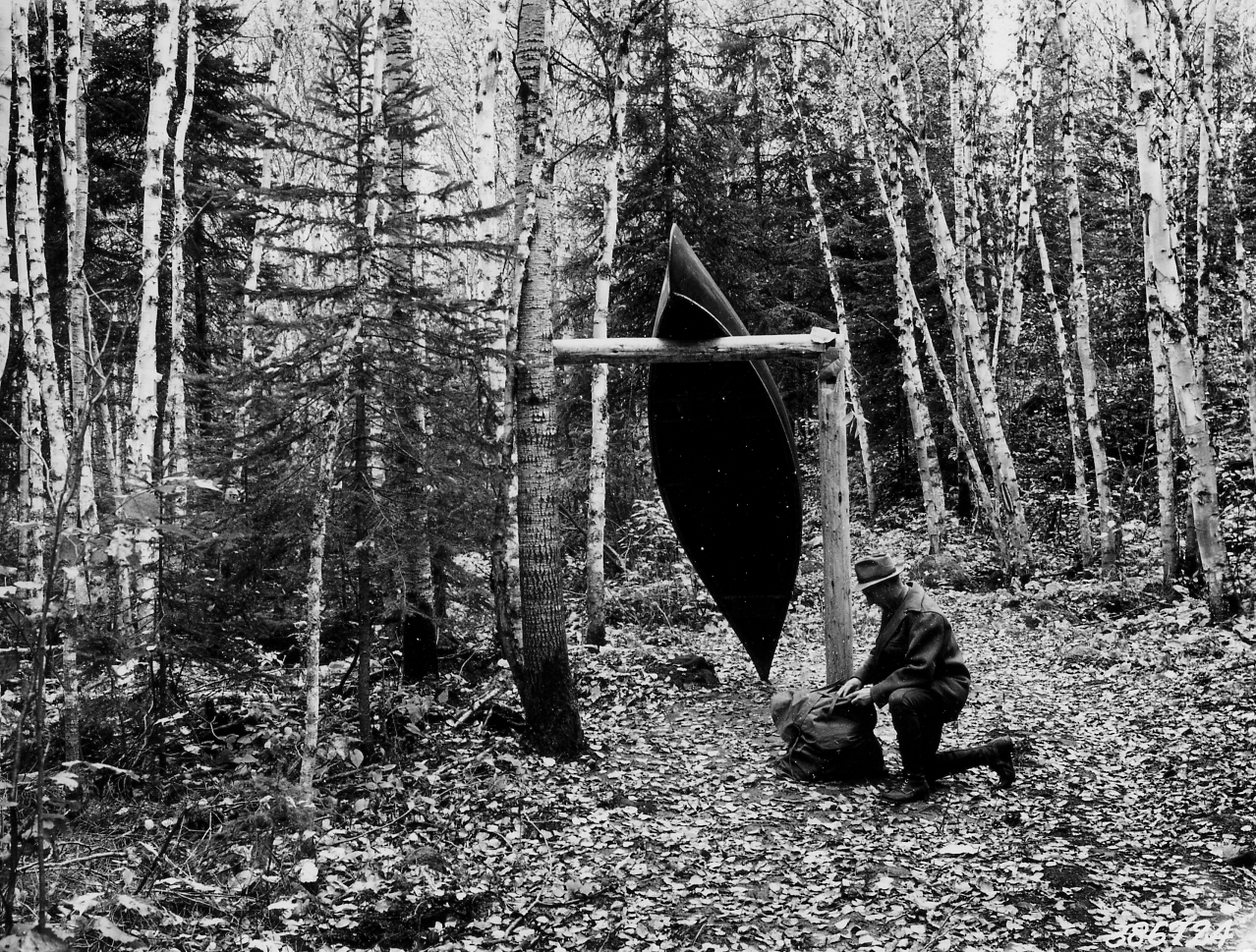 Scope and content: Original caption: Canoe rest on Smoke Lake Portage (out of Sawbill Lake).